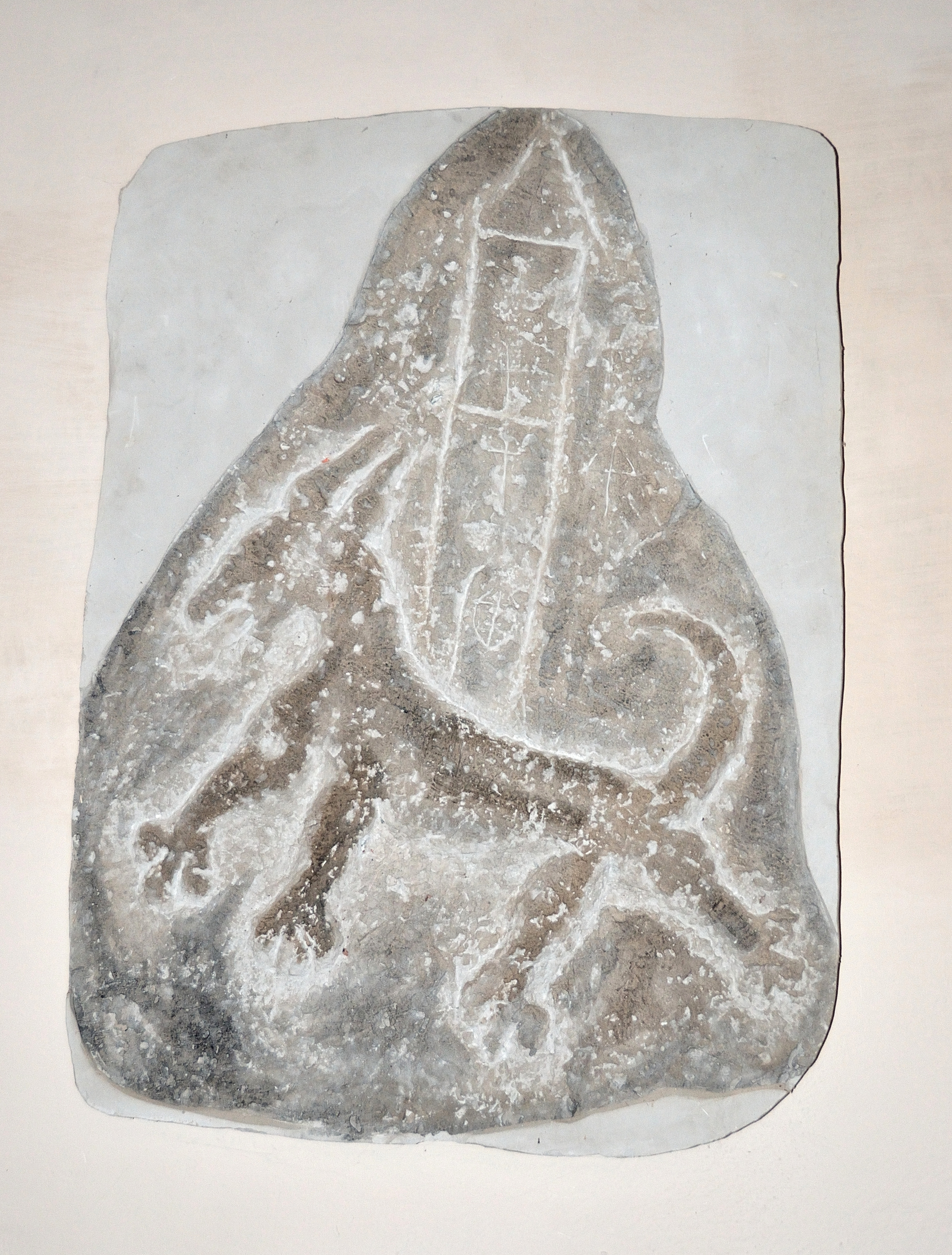 Toleranzbethaus Fresach, Carinthia. Plaster copy of a part of the Hundskirche in der Kreuzen, municipality Paternion.